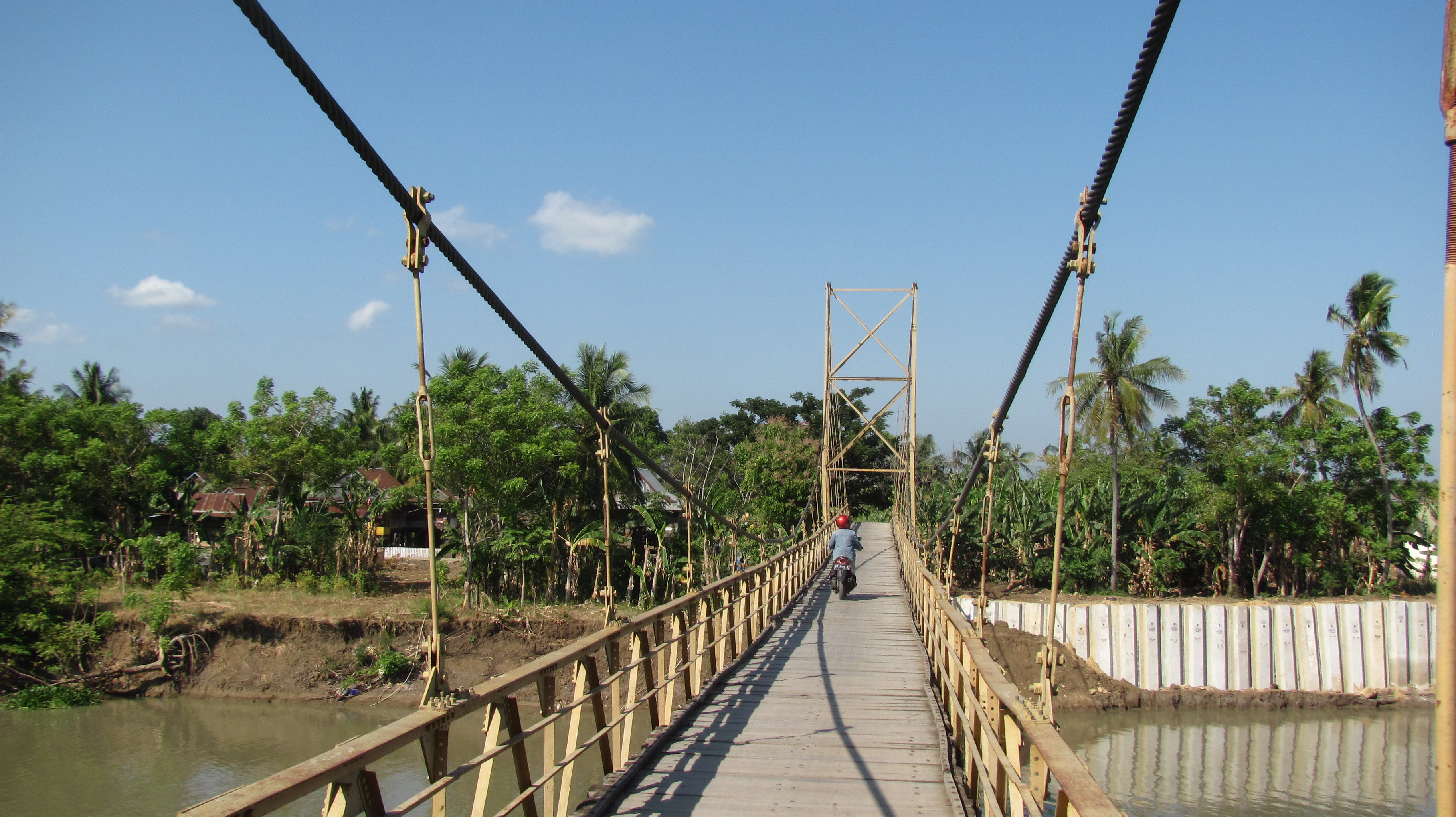 Suspension bridge over River Walanae, Sengkan town, Sulawesi island, Indonesia